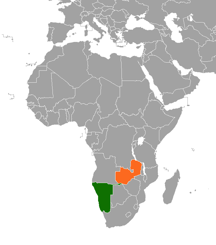 A map showing the relative positions of Namiba and Zambia.